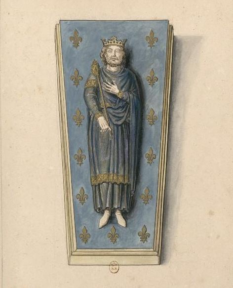 Tomb of king Louis VII of France in the middle of the choir of the church of Barbeau Abbey